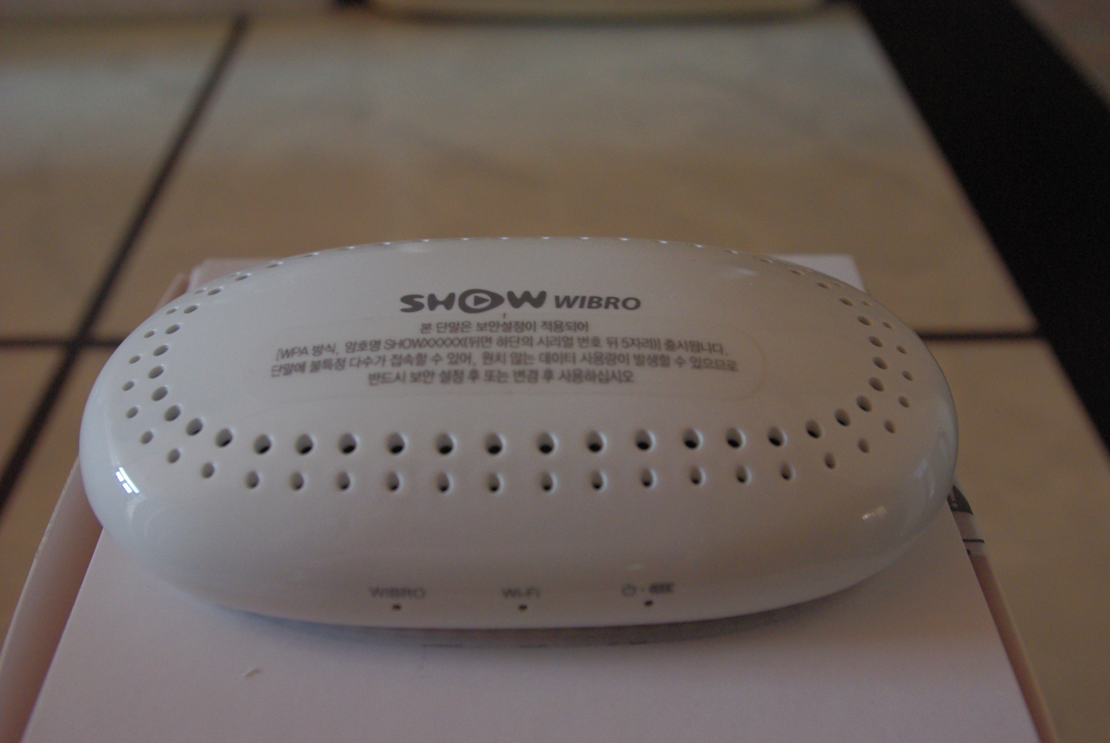 Photo of a Wibro Egg. This is a battery operated Wimax router available in Seoul.